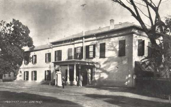 Old photograph of Government House. Cape Town. Seat of the Cape of Good Hope Government.